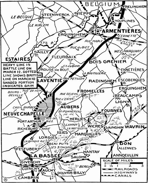 "Current History" (New York Times) map showing positions following the Battle of Neuve Chapelle, March 1915. British gained area is shaded.